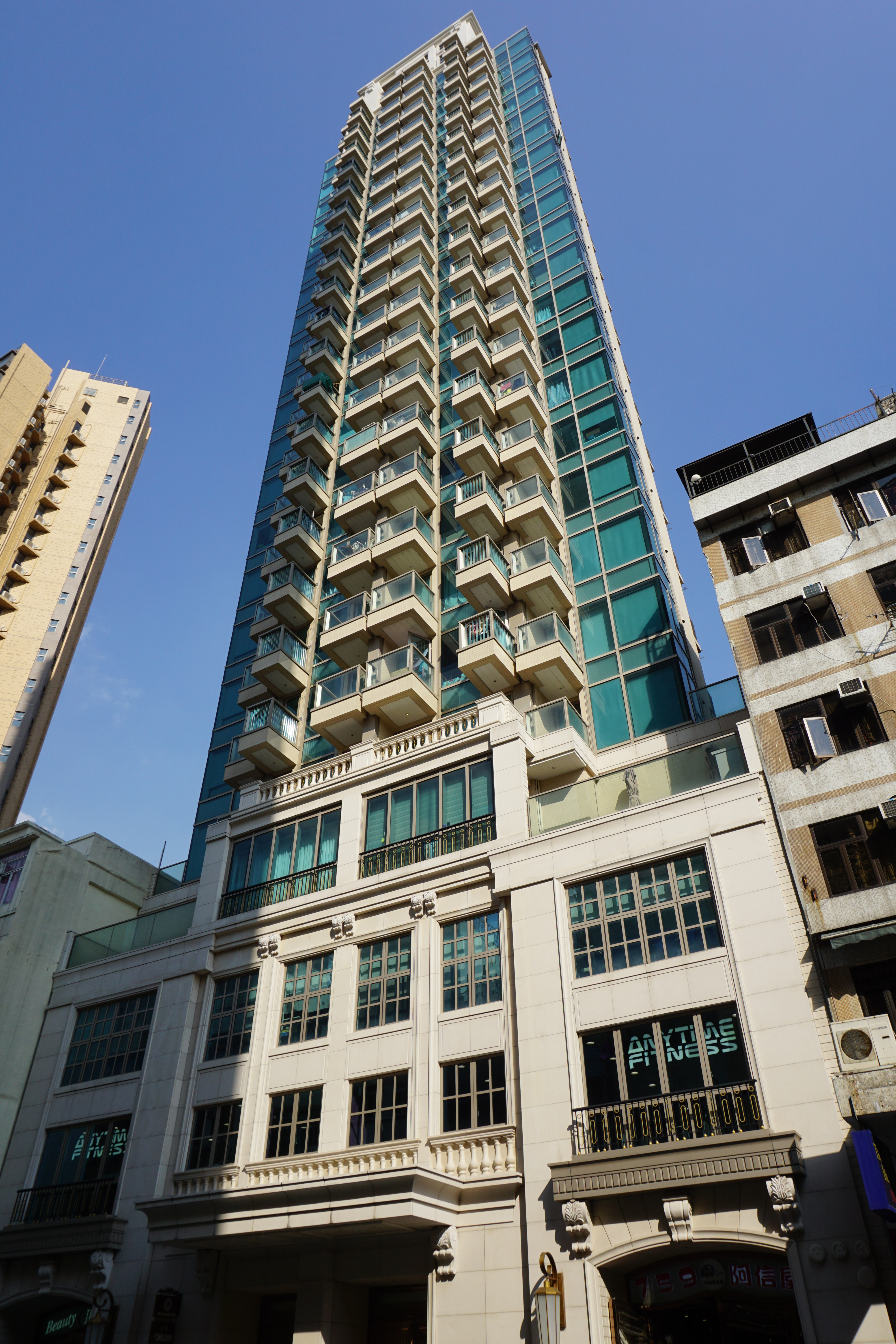 The Avery in Kowloon City, Hong Kong.